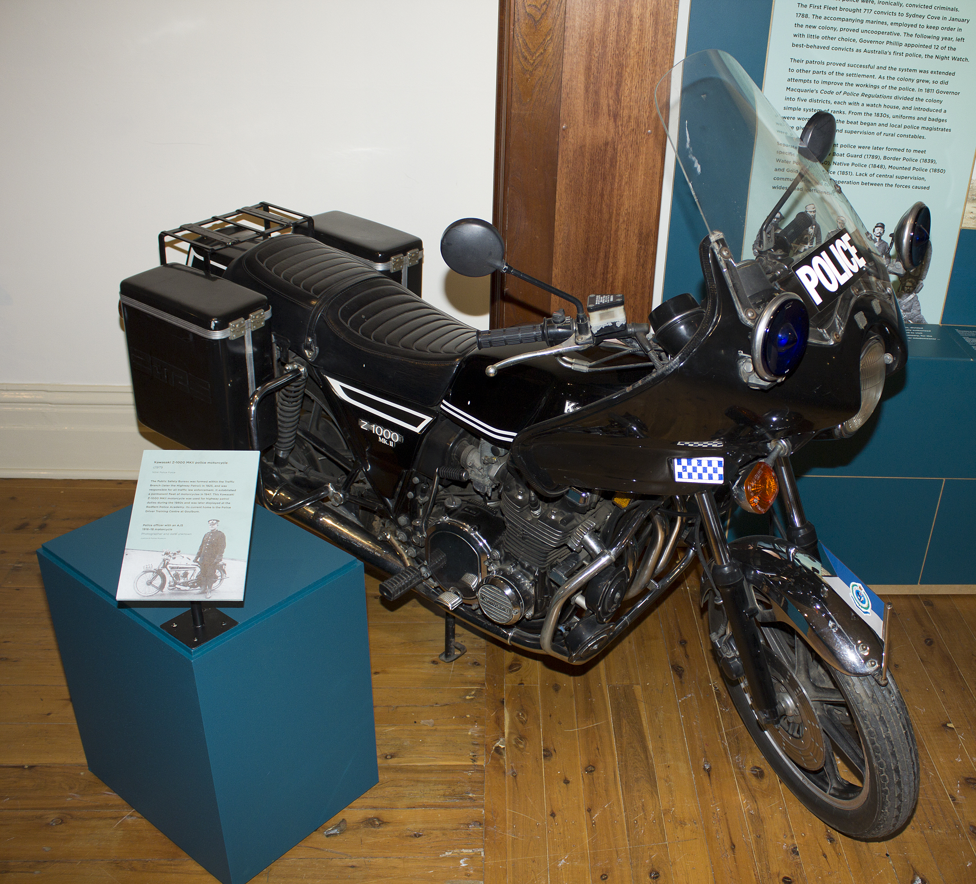 NSW Police 1979 Kawasaki Z-1000 MKII, on display at the Museum of the Riverina as part of the touring exhibition The Force: 150 years of NSW Police and is still owned by the New South Wales Police Force.